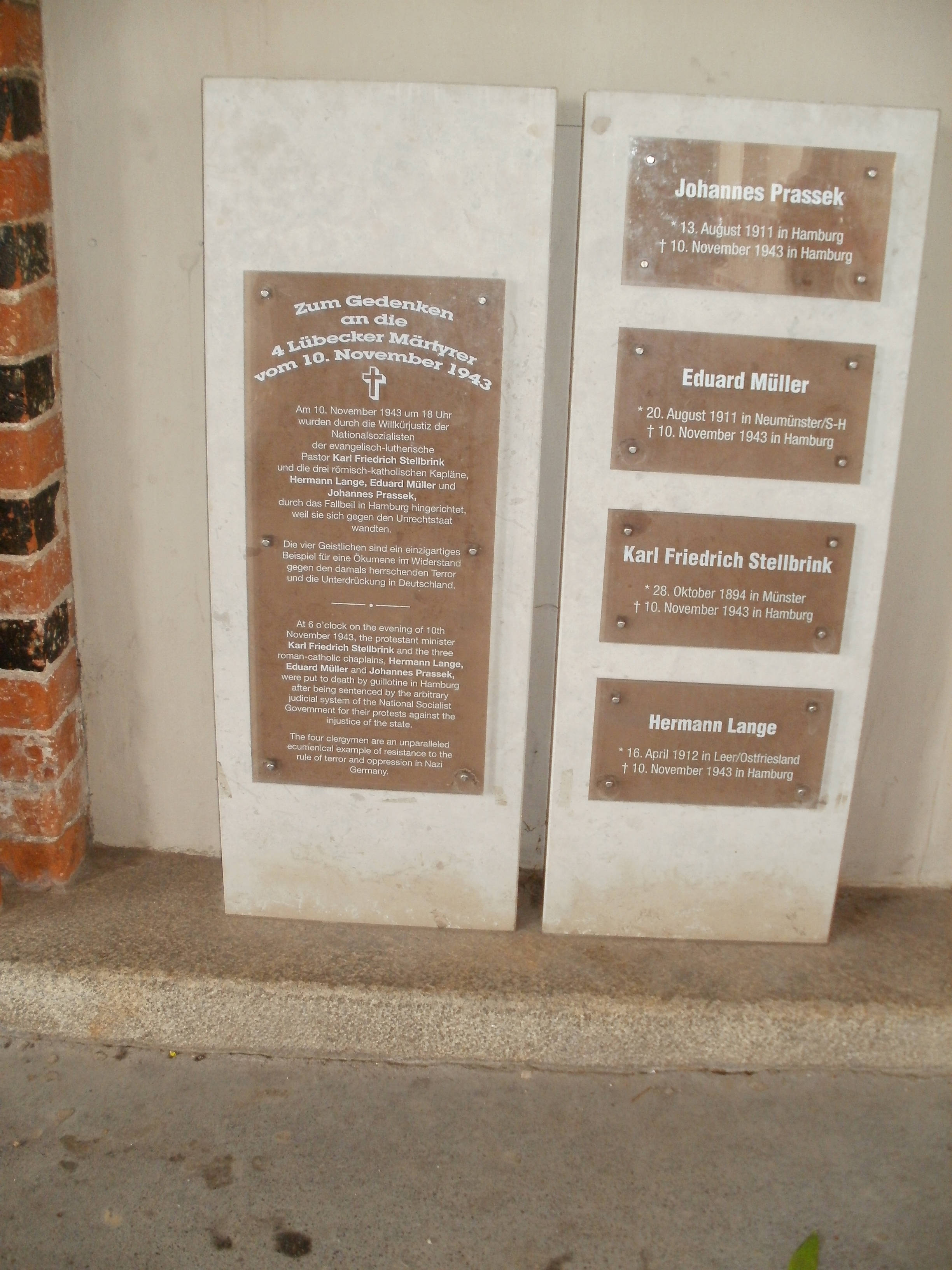 Lübeck: commemorative plaque for the Lübeck martyrs on the wall of the the town hall in the passage from Breite Straße to the cellar of town hall. The Lübeck martyrs were guillotined in 1943.